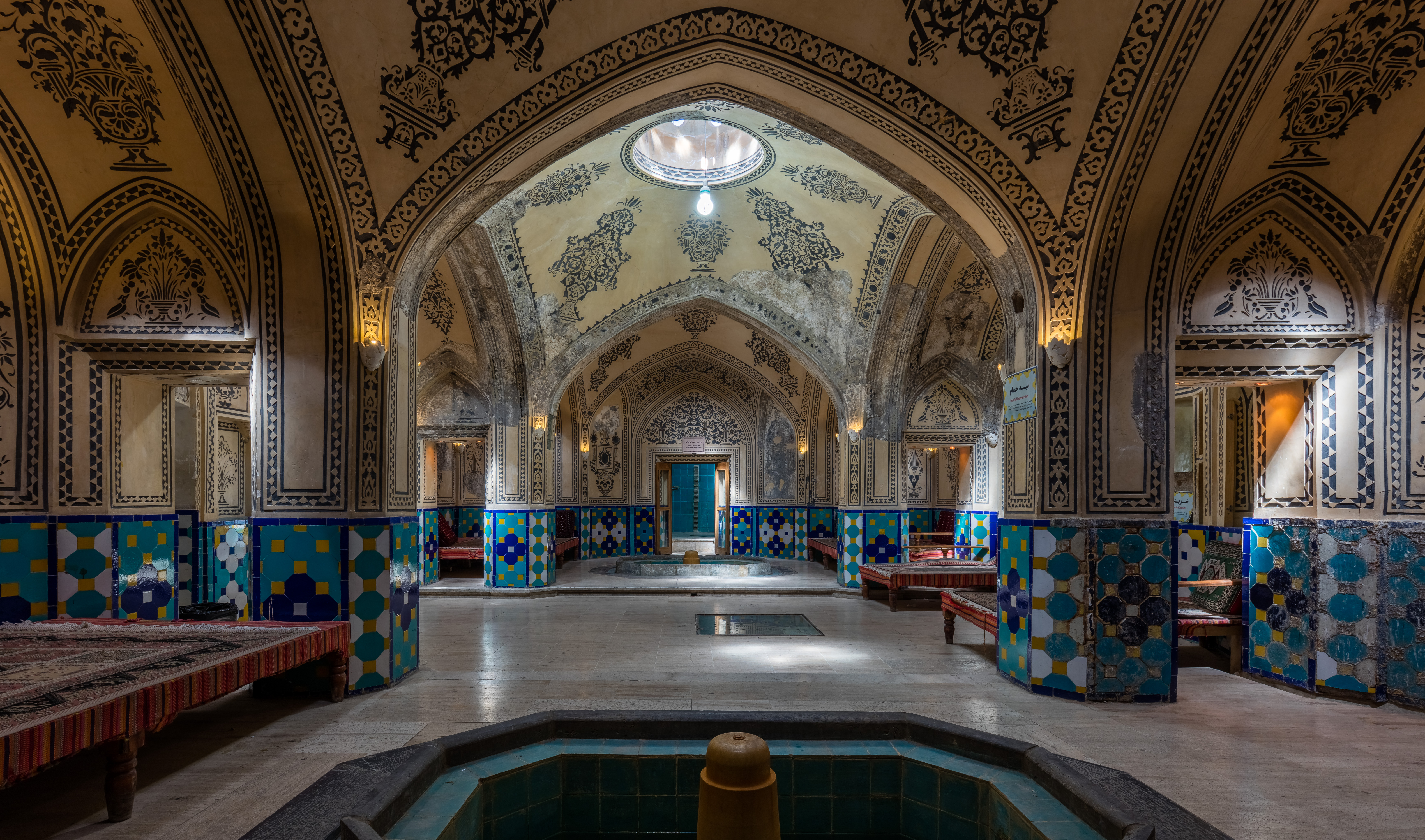 Sultan Amir Ahmad Bathhouse, Kashan, Iran